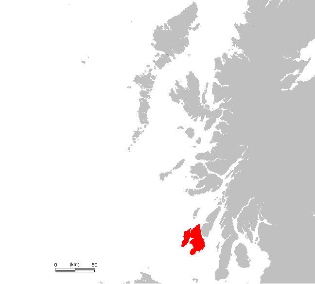 UK Islay.PNG (Scotland, Hebrides)